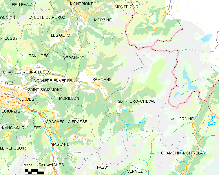 Map of French municipality Samoëns